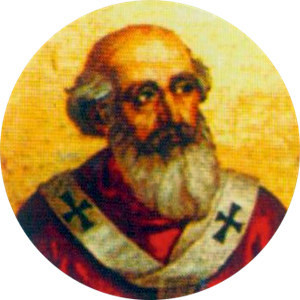 Portait of Pope Sergius II in the Basilica of Saint Paul Outside the Walls, Rome